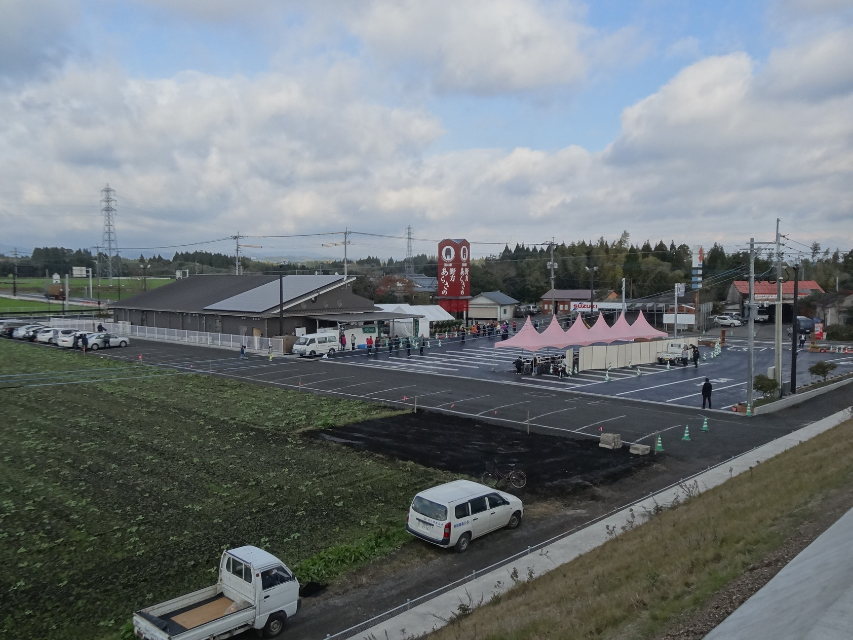 Michinoeki Nogata Arasano in Osaki Town, Kagoshima Prefecture, Japan